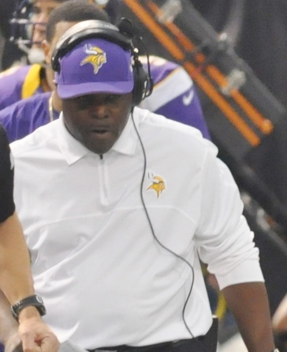 Minnesota Vikings RB coach James Saxon at the Dec. 30, 2012 game between the Vikings and Green Bay Packers.